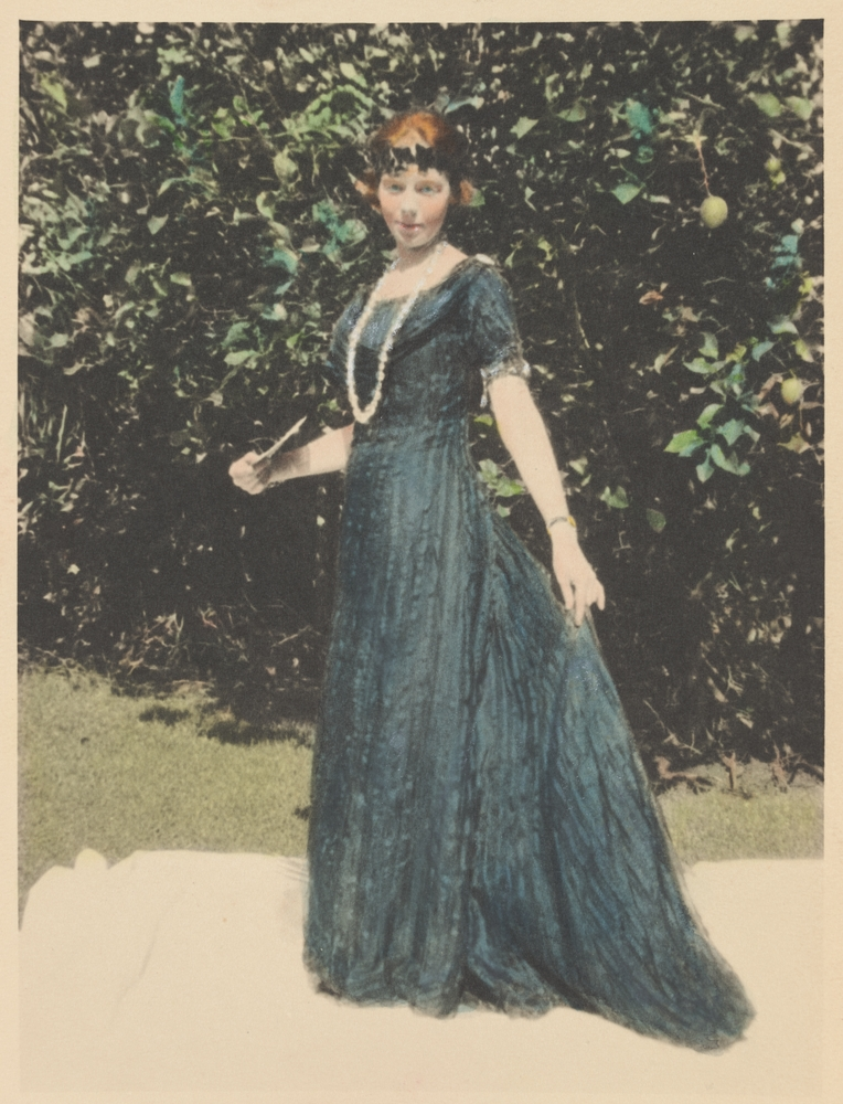 Sybil Mary Frances Craig 1901-1989